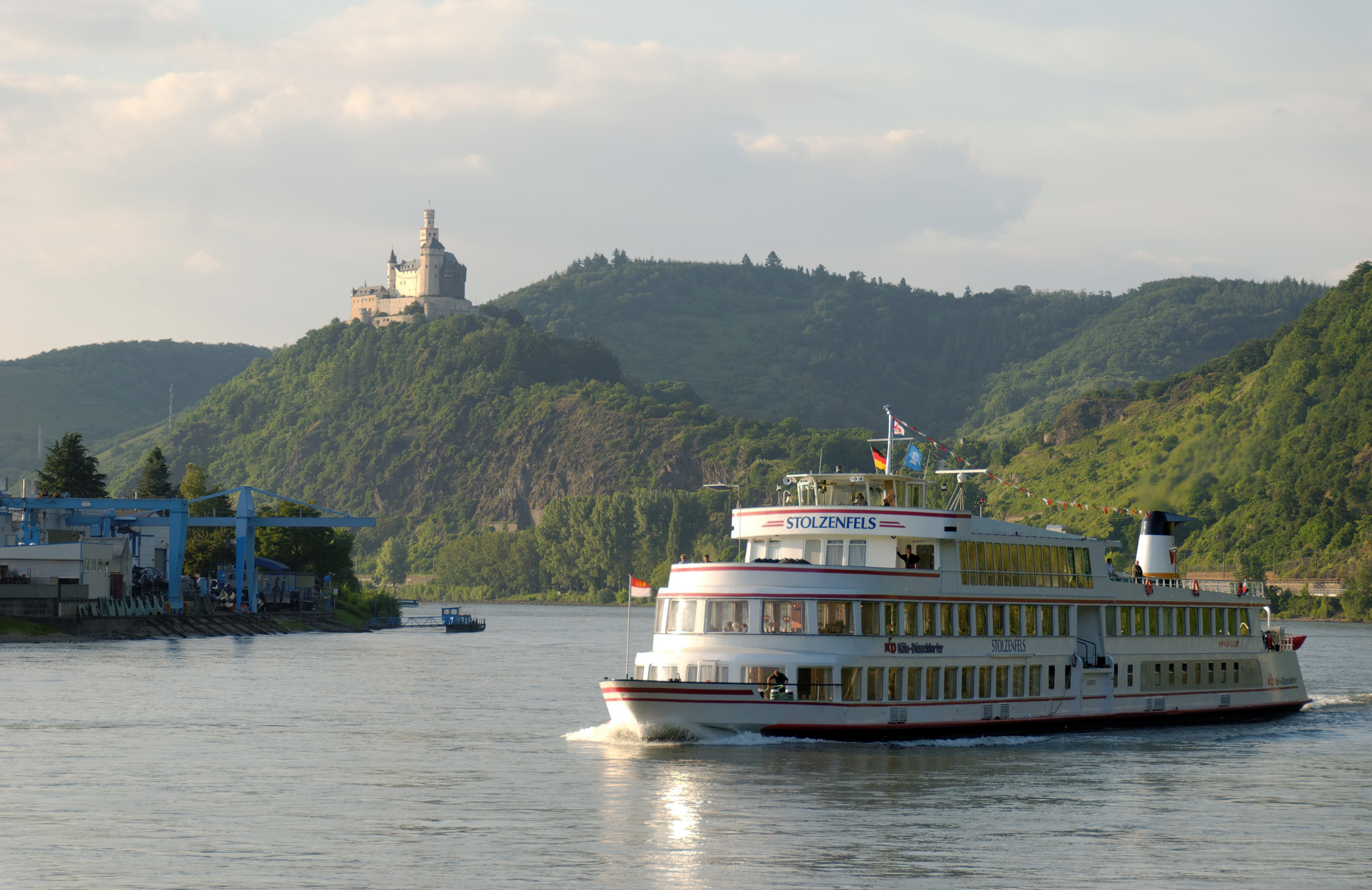 The passenger vessel Stolzenfels of the Köln-Düsseldorfer shiping company on the Rhine River in Spay. In the background the Marksburg - on the left side the slipway of the Shipyard Schottel.